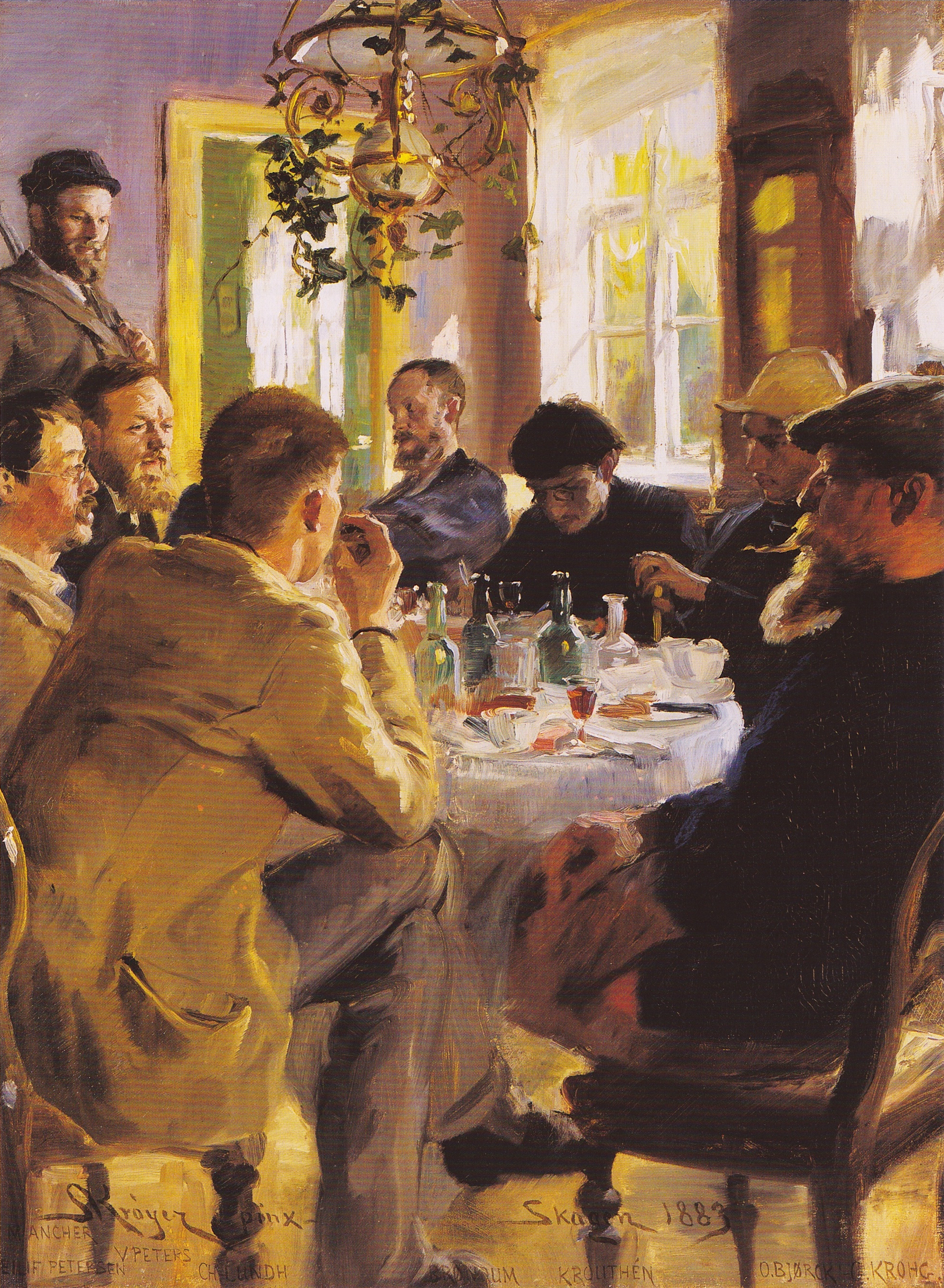 A scene from the dining room at Brøndums Hotel. Apparently the weather is not suitable for painting. The mixed Scandinavian group consists of (to the right) Christian Krogh; on his left side (back to the viewer) Charles Lundh, then to his left (in profile) Eilif Peterssen. Next to Peterssen is Wilhelm Peters, and above him Michael Ancher, ready to go hunting. Further right, Degn Brøndum, then Johan Krouthén and (with hat) Oscar Björck. Source: Peter Michael Hornung: Peder Severin Krøyer, page 172-173.